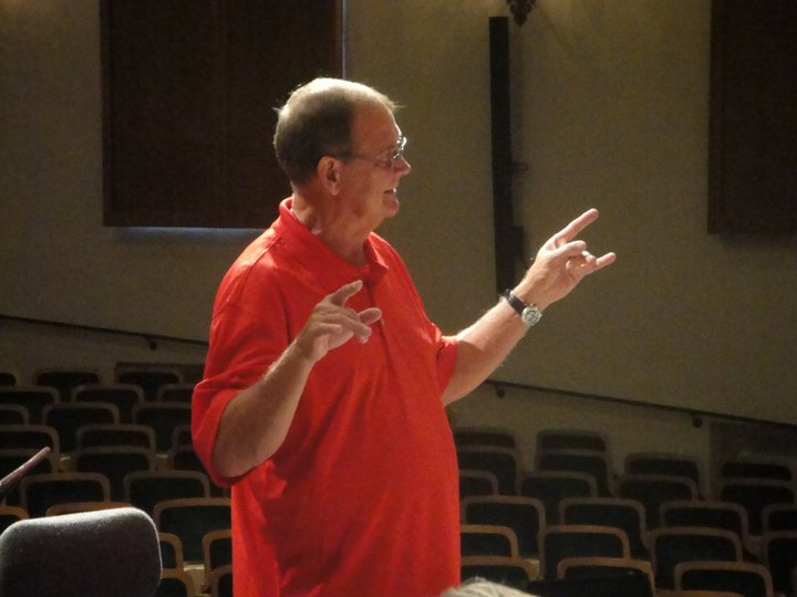 This is from Bob Curnow's private archives and released to me in an email on 2011-09-19, he has given permission to use this on the Bob Curnow Wikipedia page.